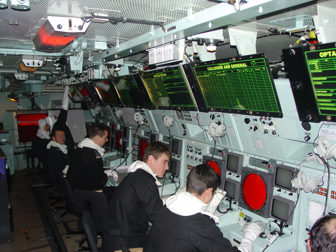 "Regele Ferdinand" frigate, the flagship of the Romanian Navy.